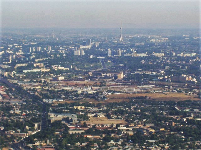 Aerial view of Tashkent, Uzbekistan